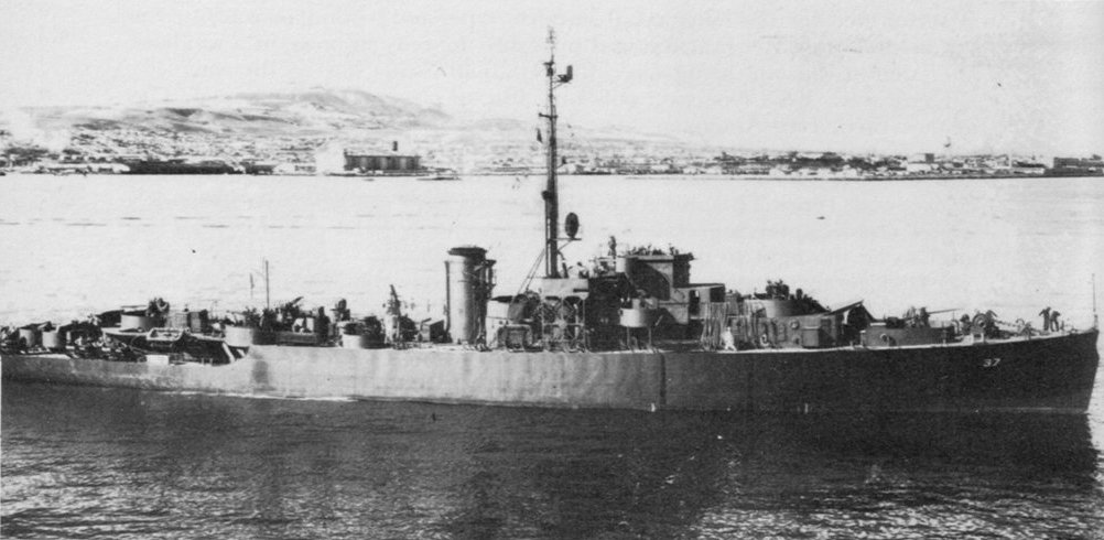 US Navy Bureau of Ships